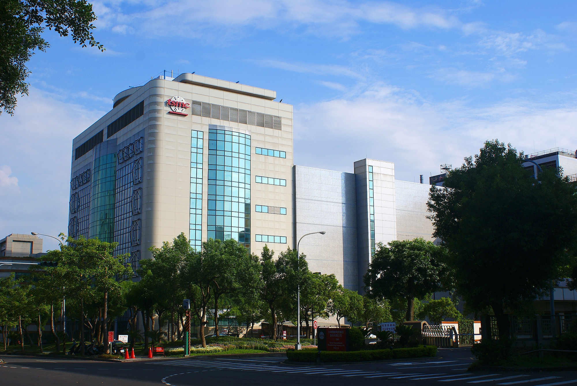 Taiwan Semiconductor Manufacturing Company Limited (TSMC), Fab 5 building, Hsinchu Science Park, Taiwan